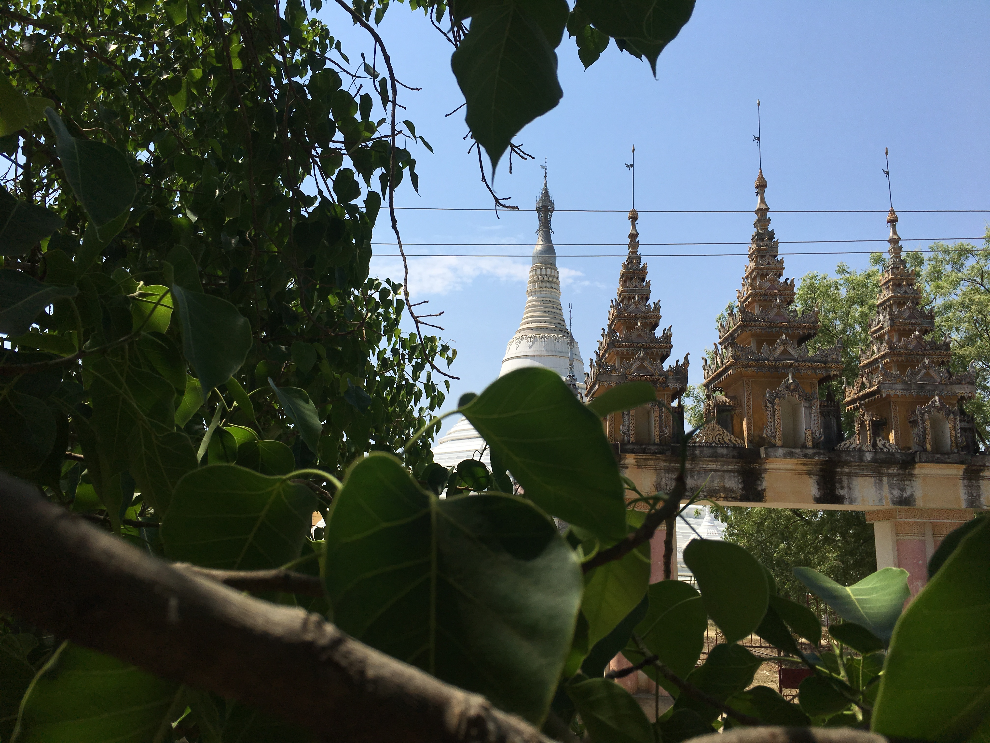 Myamyinzu Pagoda Tesu Village မြန်မာဘာသာ: မြမဉ္ဇူဘုရား၊တဲစုကျေးရွာ